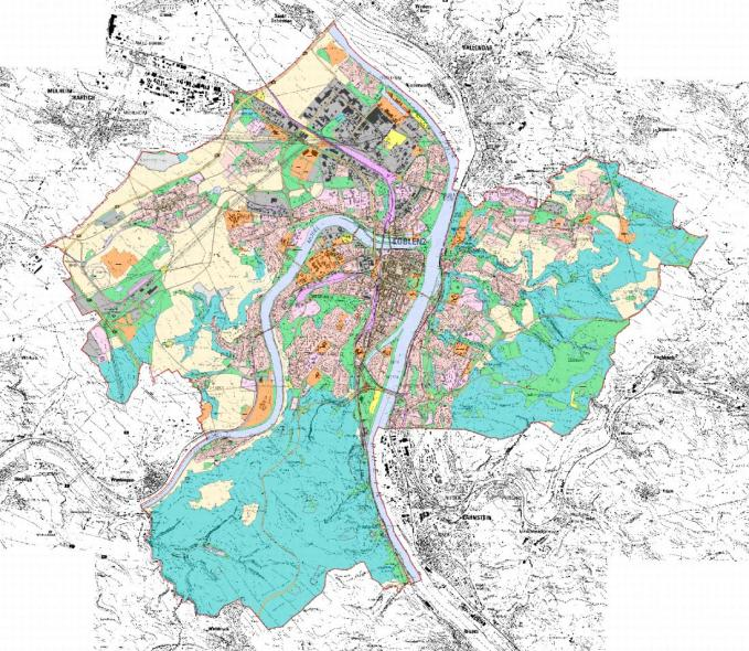 Land use plan of the city of Koblenz Germany. Dumbed down.